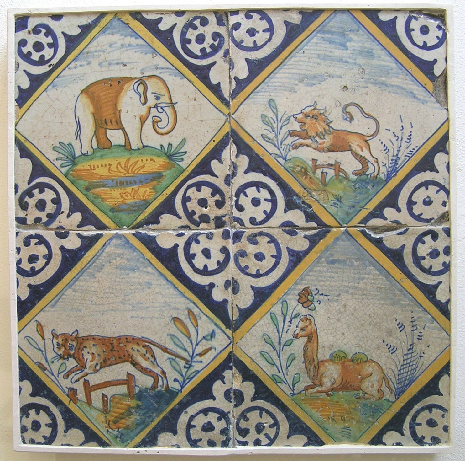 Decorated tiles showing animals.